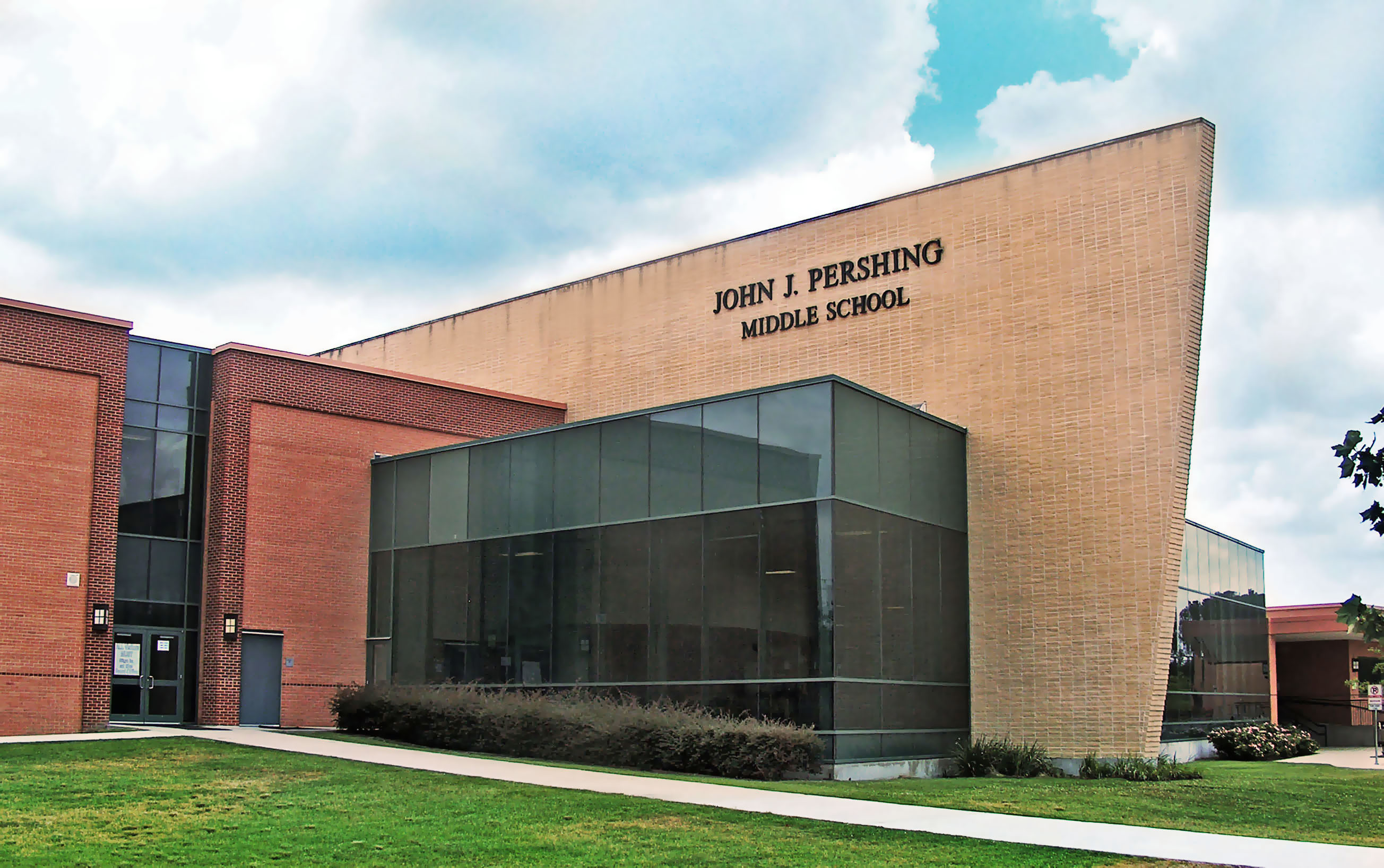 John J. Pershing Middle School